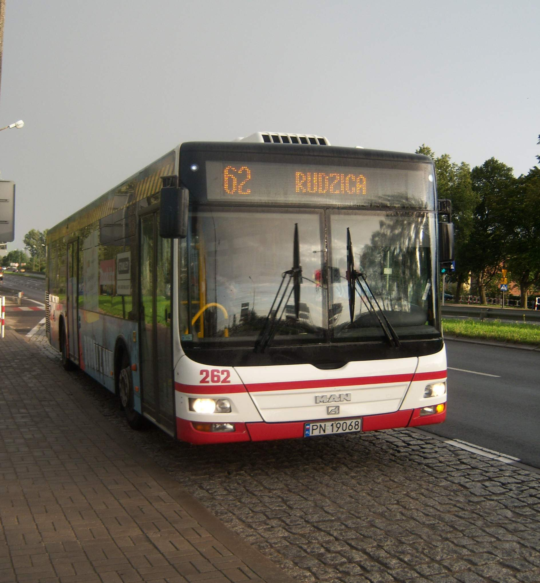 MAN NL263 Lion's City bus (#262) in Konin, Poland. Built 2005, MZK Konin operator.